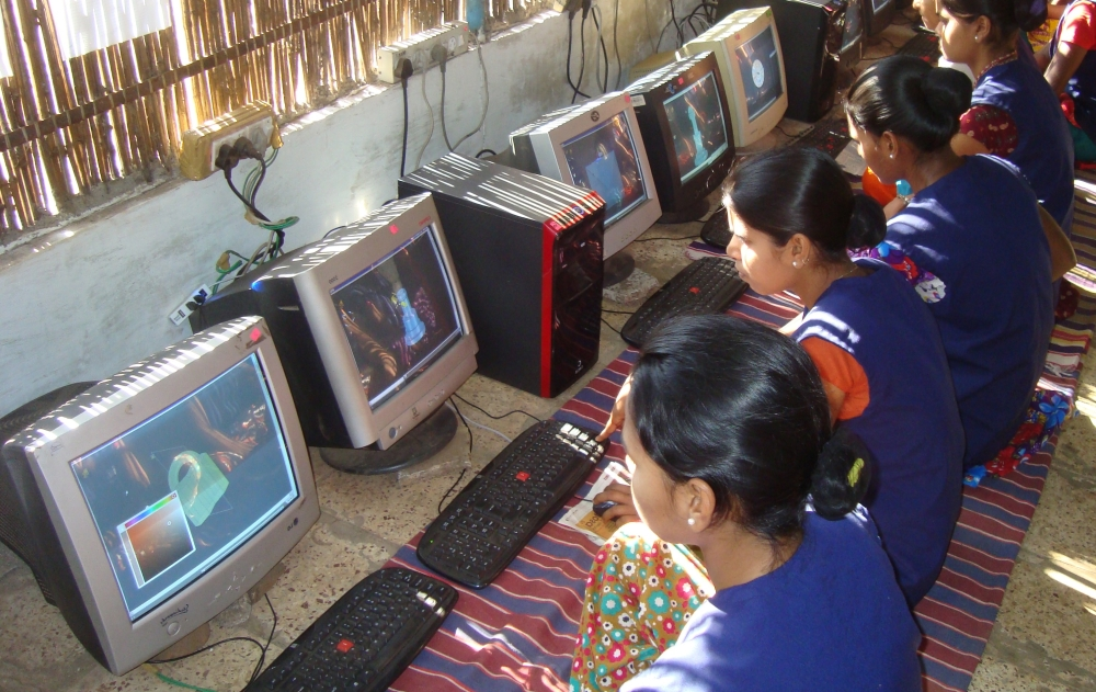 Our tribal youth (Adivasi) students learning computers within our PACT program. This program is conducted by Crisys Foundation free of cost (with monthly stipend given to families), where students learn multilingual typing, 2D/3D graphics, personal development, languages, cooking, and other related skills. Photo taken in our Yeoor PACT center, located in Thane, Maharashtra, India.